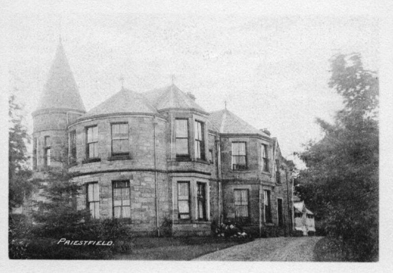 Black and white postcard image of Priestfield House, Fife